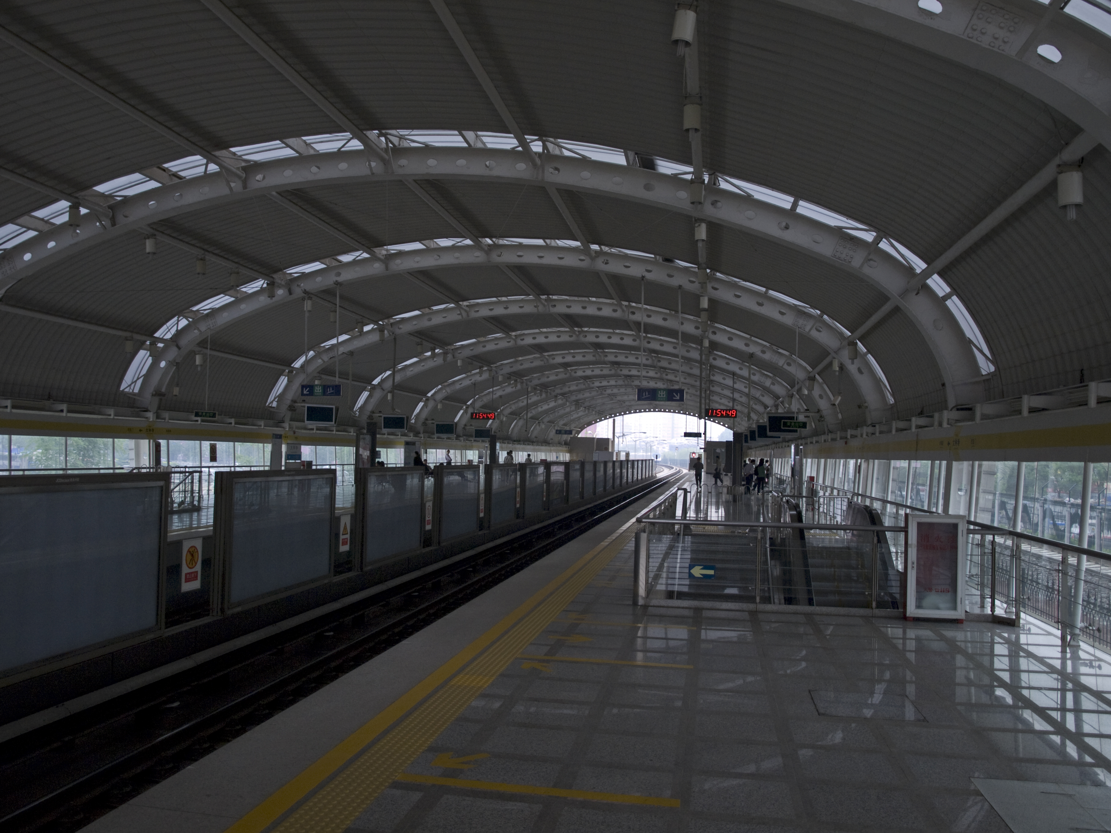 Dazhongsi station, Beijing Subway